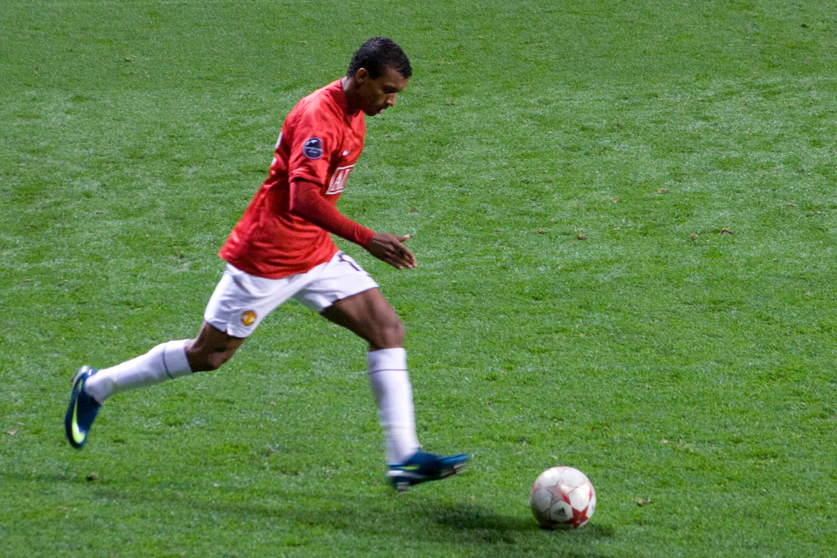 Portuguese & Man Utd footballer Nani